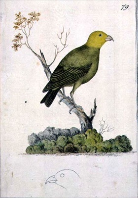 Ōʻū (Psittirostra psittacea) (Plate 79) Painted by William Ellis while accompanying Captain James Cook on his third voyage (1776-78).